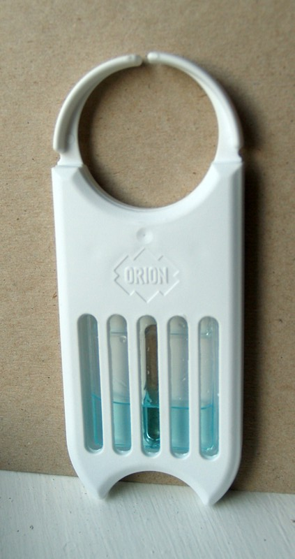 Empenthrin insecticide against moths